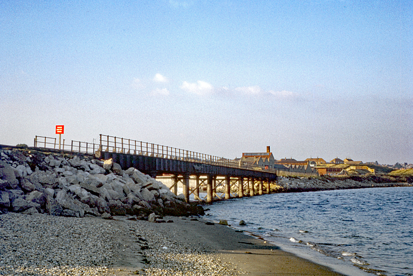 Portland Branch railway bridge over the entrance to the Fleet. Demolished in 1972. Scanned from a Kodachrome 35mm slide.